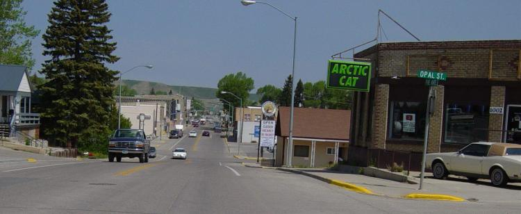 Kemmerer, Wyoming Photo taken by Daniel Mayer and released under terms of the GNU FDL.